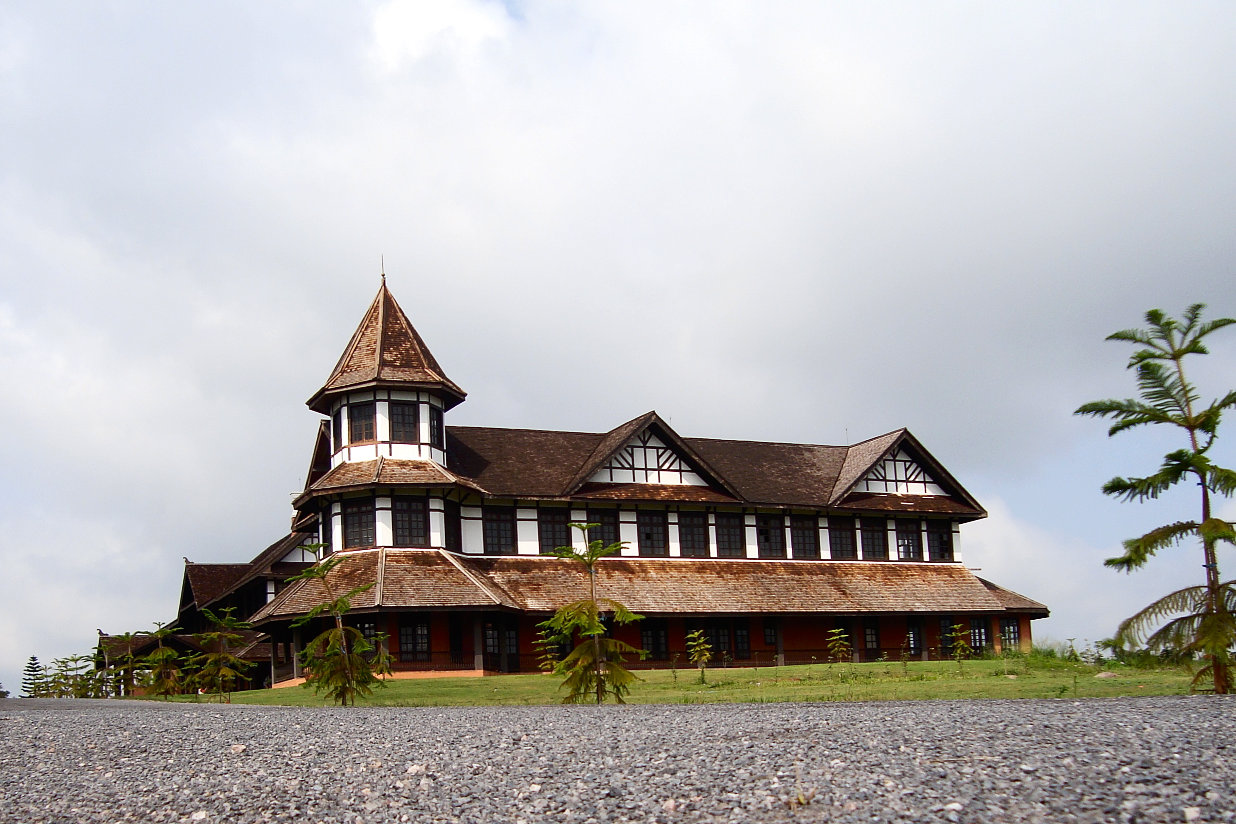 Summer Palace of the Governor of British Burma, located in Pyinoolwin